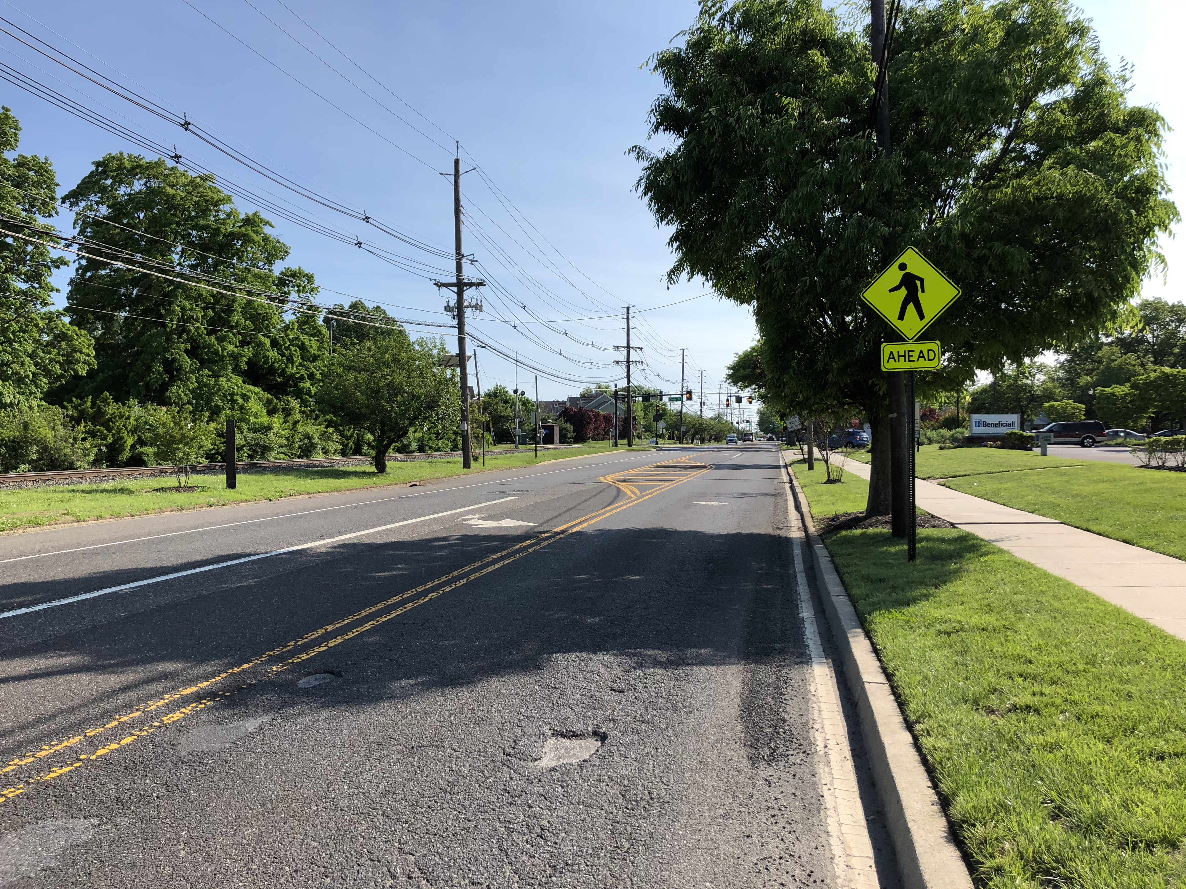 View south along Burlington County Route 543 (Broad Street) between Martha's Lane and Cedar Street in Riverton, Burlington County, New Jersey